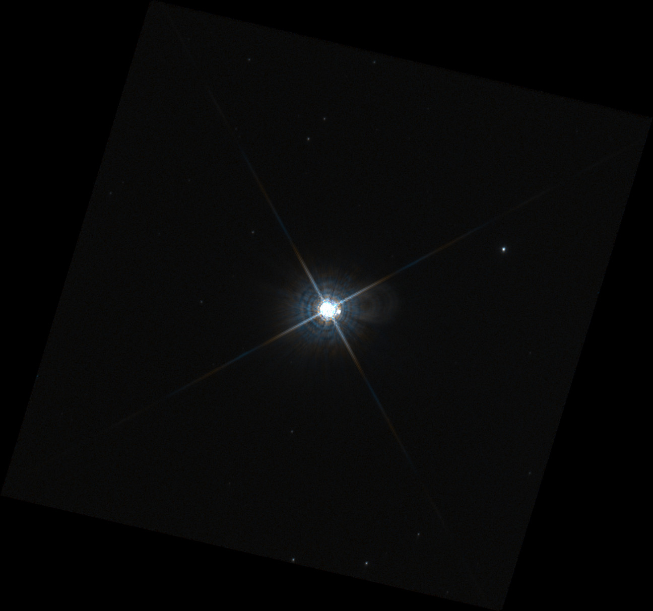 This Hubble WFC3 image shows the Cepheid S Normae and its close binary companion. Also visible are three further faint companions which may be chance alignments or other members of the open cluster NGC 6087.